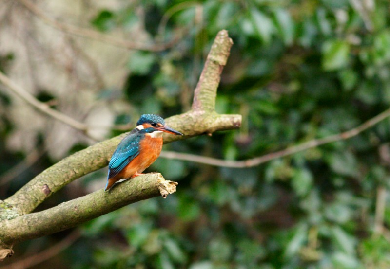 Alcedo atthis (European Kingfisher), River Darenth near Lullingstone Castle, Kent, England